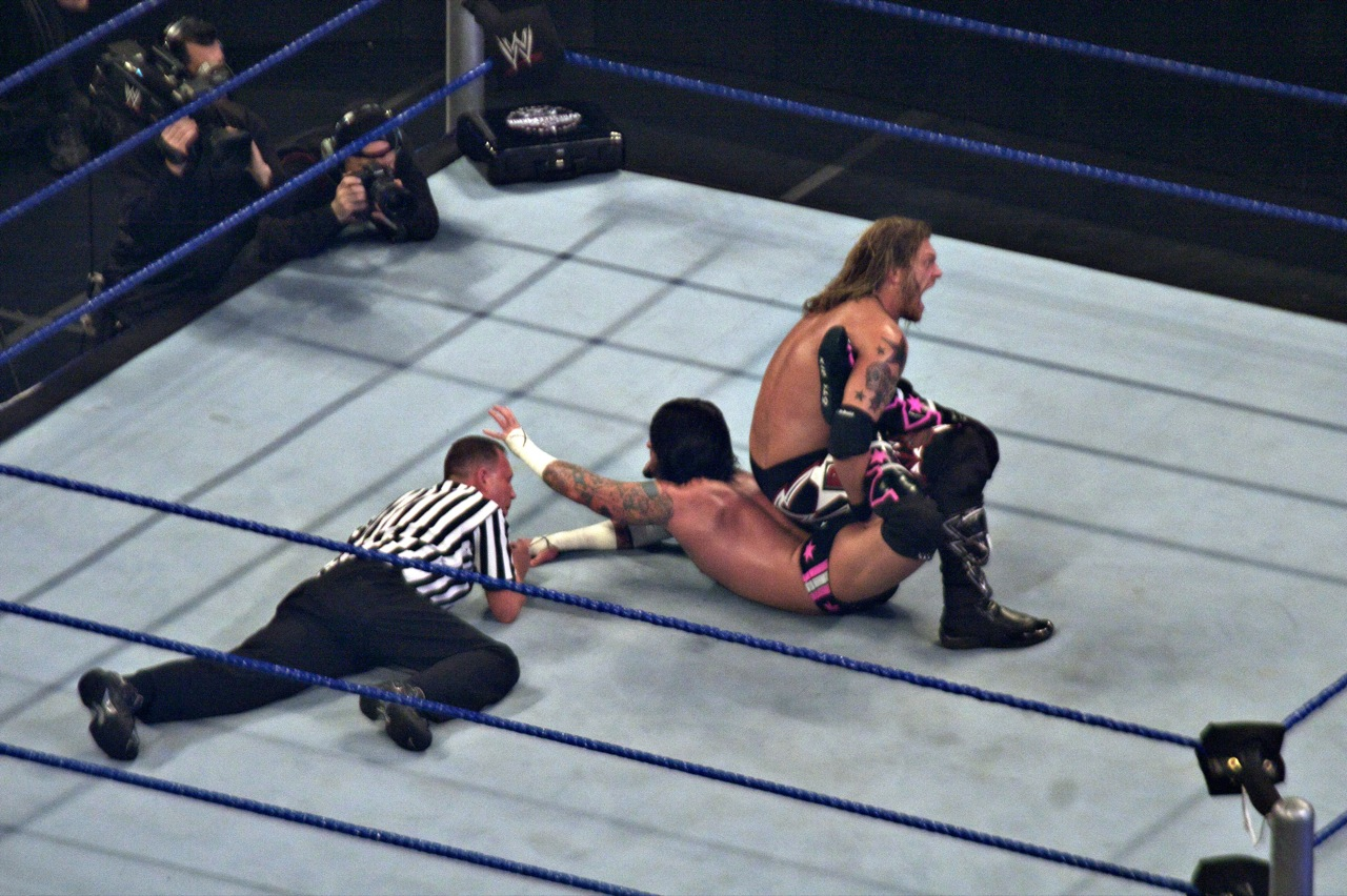 Edge performing his signature shapshooter in cm punk